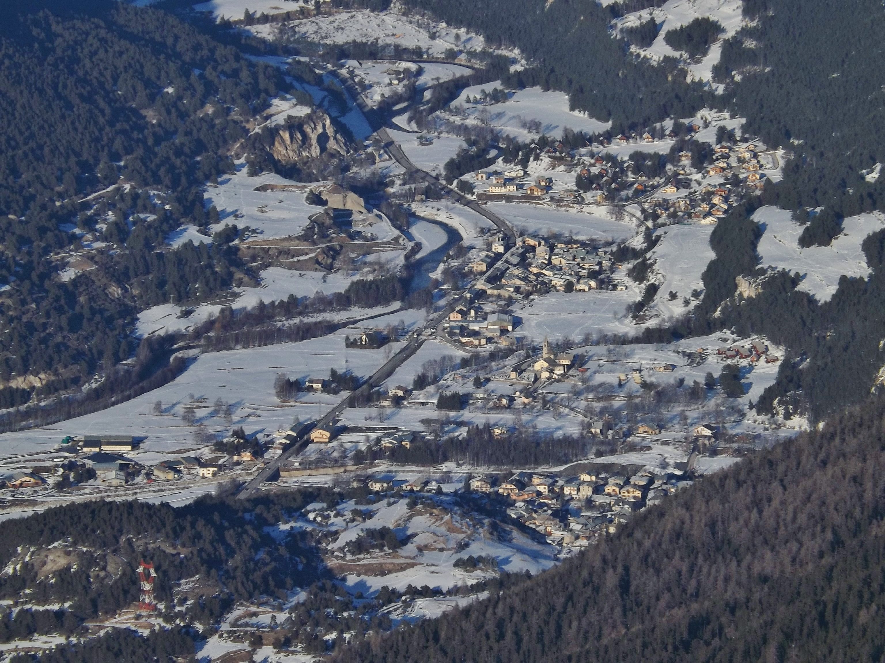 Panoramic sight of the French commune of Bramans, in Savoie, France.